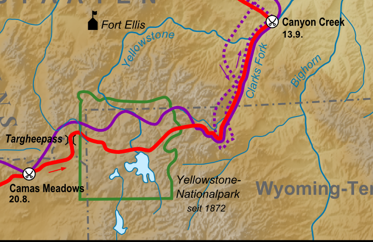 A cropper version of a map already published onWikimedia which shows the Nez Perce and General Howard's routes through Yellowstone National Park